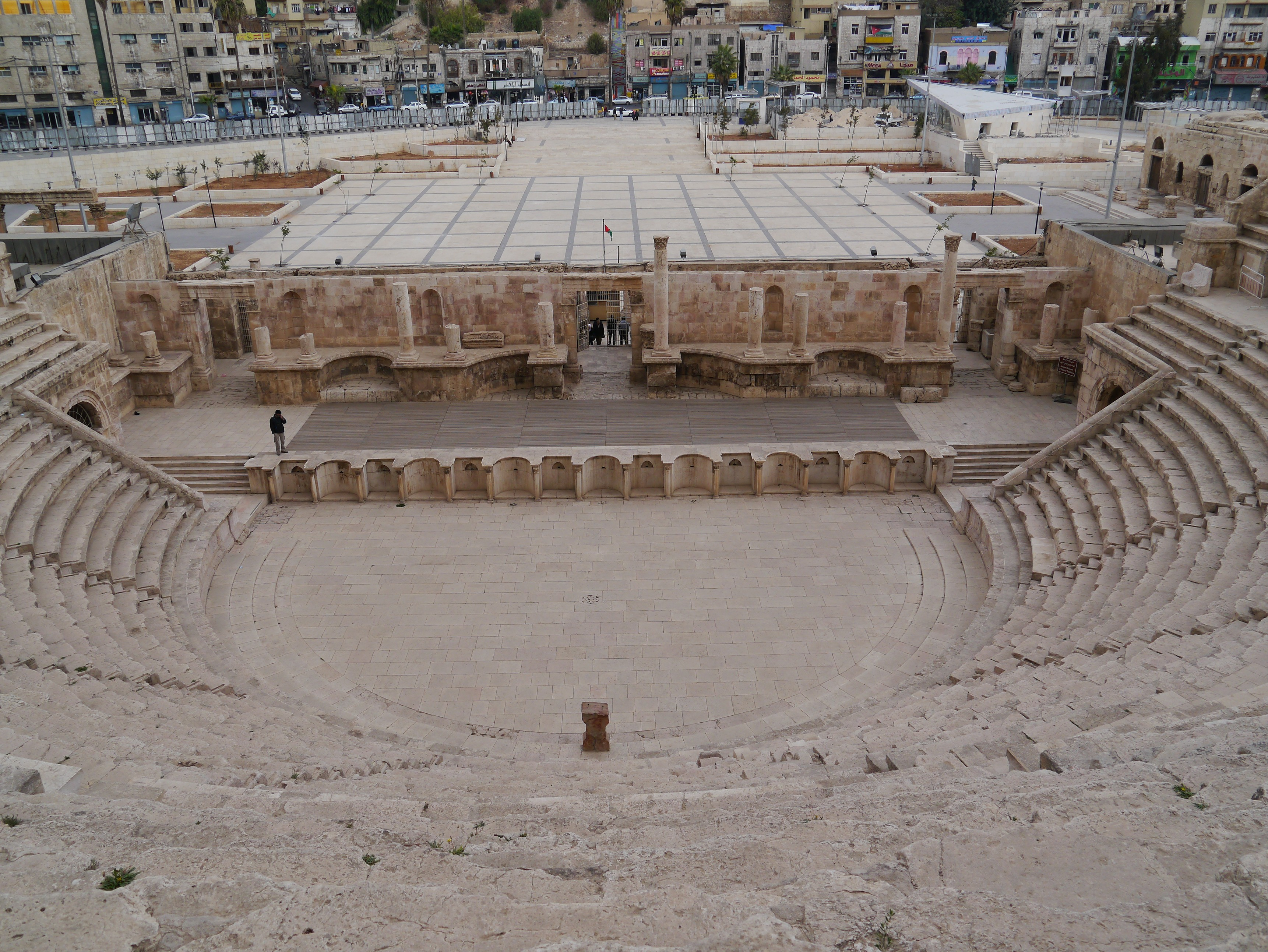 Roman Theatre, Amman, North western Jordan